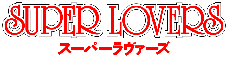 Logo of Súper Lovers